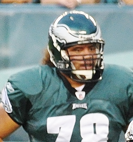 Fenuki Tupou (#78) and two other Eagles players (one of them is probably Joe Mays) warm up before the 2009 "Flight Night" scrimmage at Lincoln Financial Field.